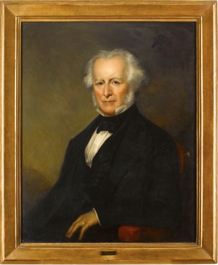 Portrait from life of Hyman Gratz (1776-1857), the President Pro Tem of The Philadelphia Club from 1845 to 1847[1]. Painted by George Healy (1813-1894). Presented to the Philadelphia Club - received from Mr. J. Marx Etting (PC 1870-1915).